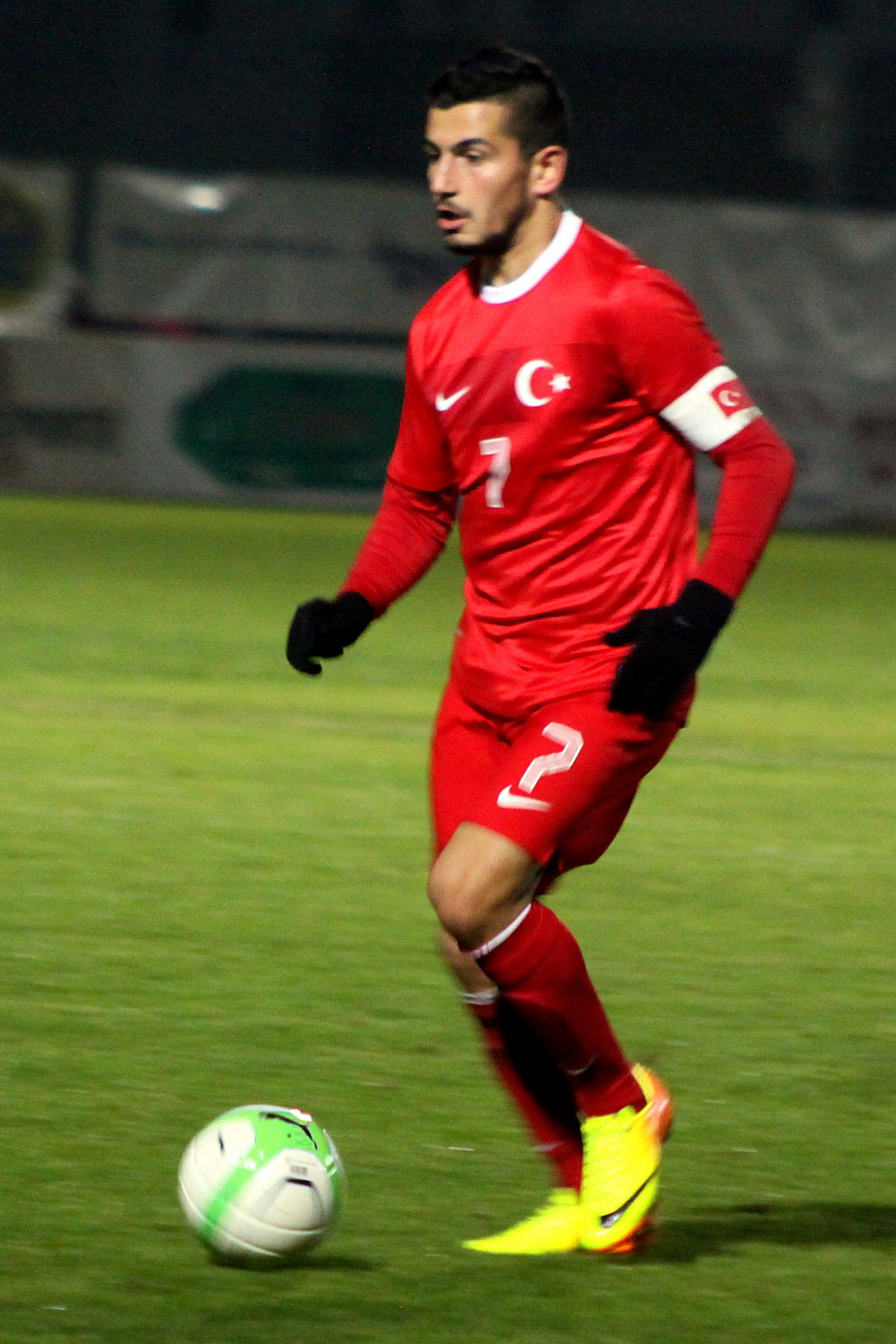 Friendly-match Austria U-21 vs. Turkey U-21 (2:0) on 2013-11-14 in Wiener Neudorf. – The photo shows Emrah Başsan (Medical Park Antalyaspor, Turkey).